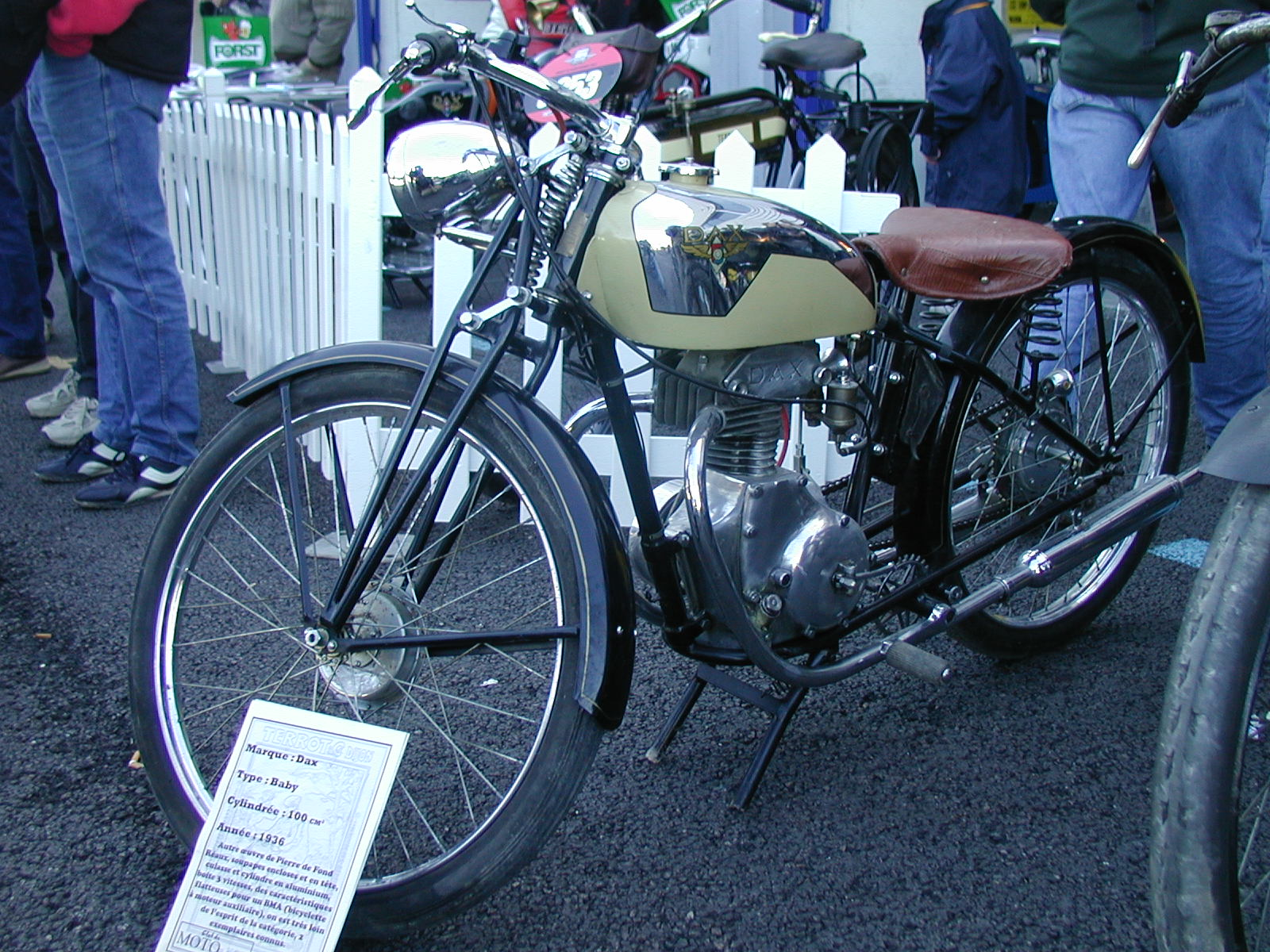 Dax Baby 100 cc french motorcycle, 1936 Picture taken by Gérard Delafond in Coupes Moto Légendes